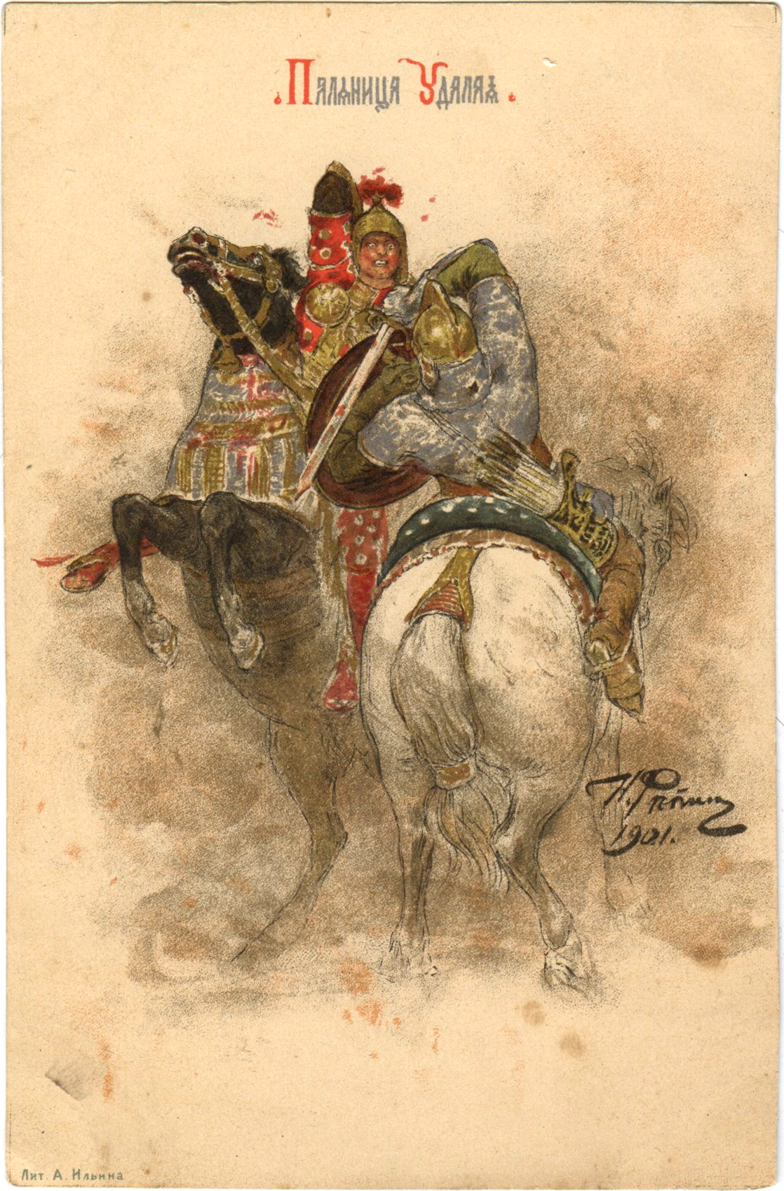 Daring polyanitsa